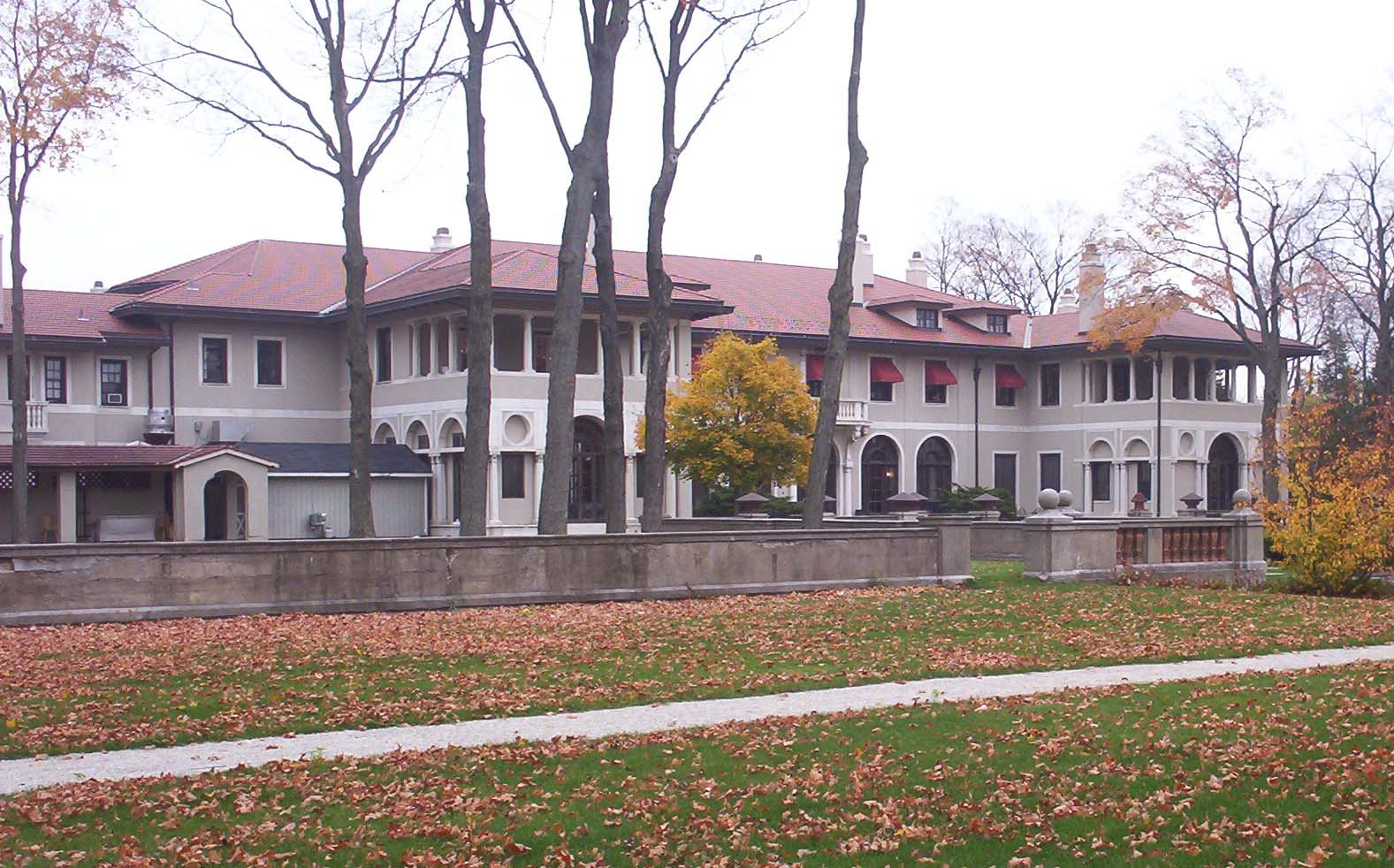 Photograph of the Formal Gardens at Lake Forest Academy. I took this photo myself and hereby release all rights. Dylan 16:11, 18 December 2005 (UTC)